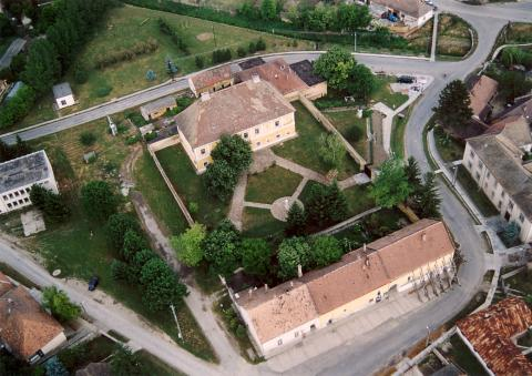 Kölesd, Hungary, aerialphotography